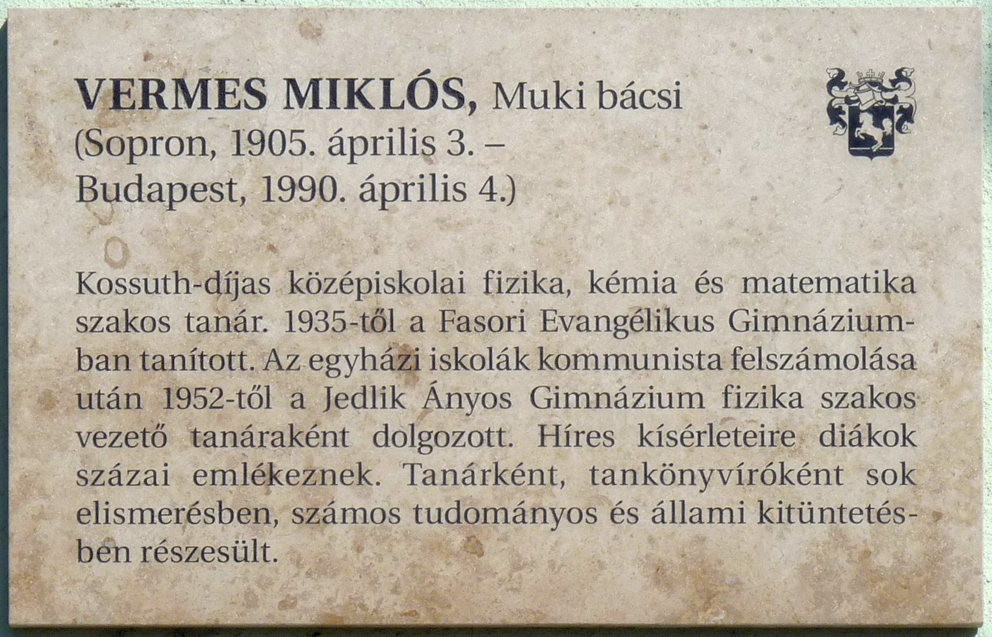 Commemorative plaque to Miklós Vermes (1905-1990), Kossuth Prize-winning Hungarian high school teacher. It is located in the street bearing his name. (Budapest, District XXI, Vermes Miklós Street Nr 12)